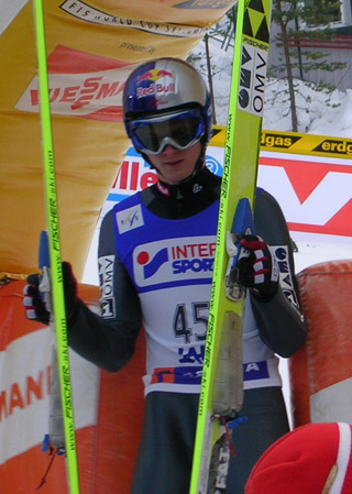 Thomas Morgenstern in Lahti in 2006-03-05